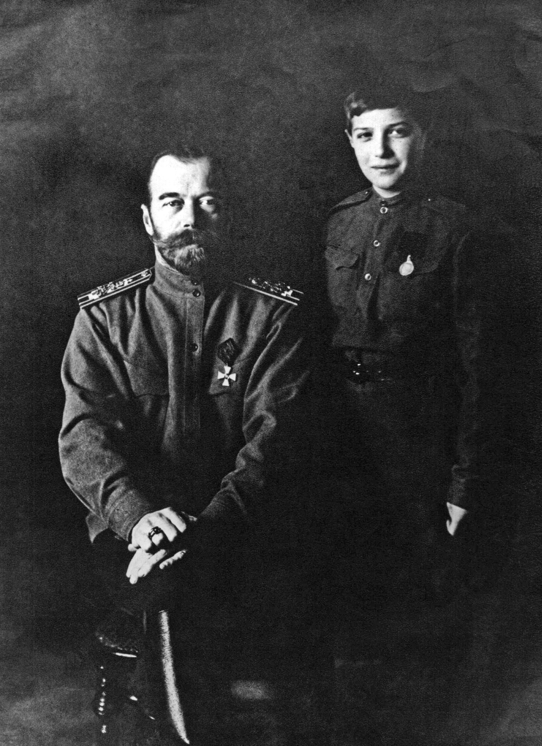 Nicholas II and Alexei at Stavka